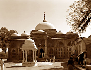 ShahAlamDargah 21393